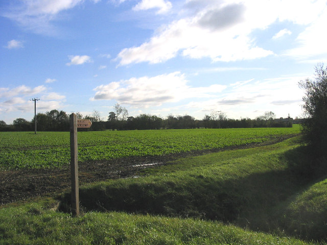 Footpath, Highwood, Essex. This footpath runs south from Wyse's Road to Loves Green